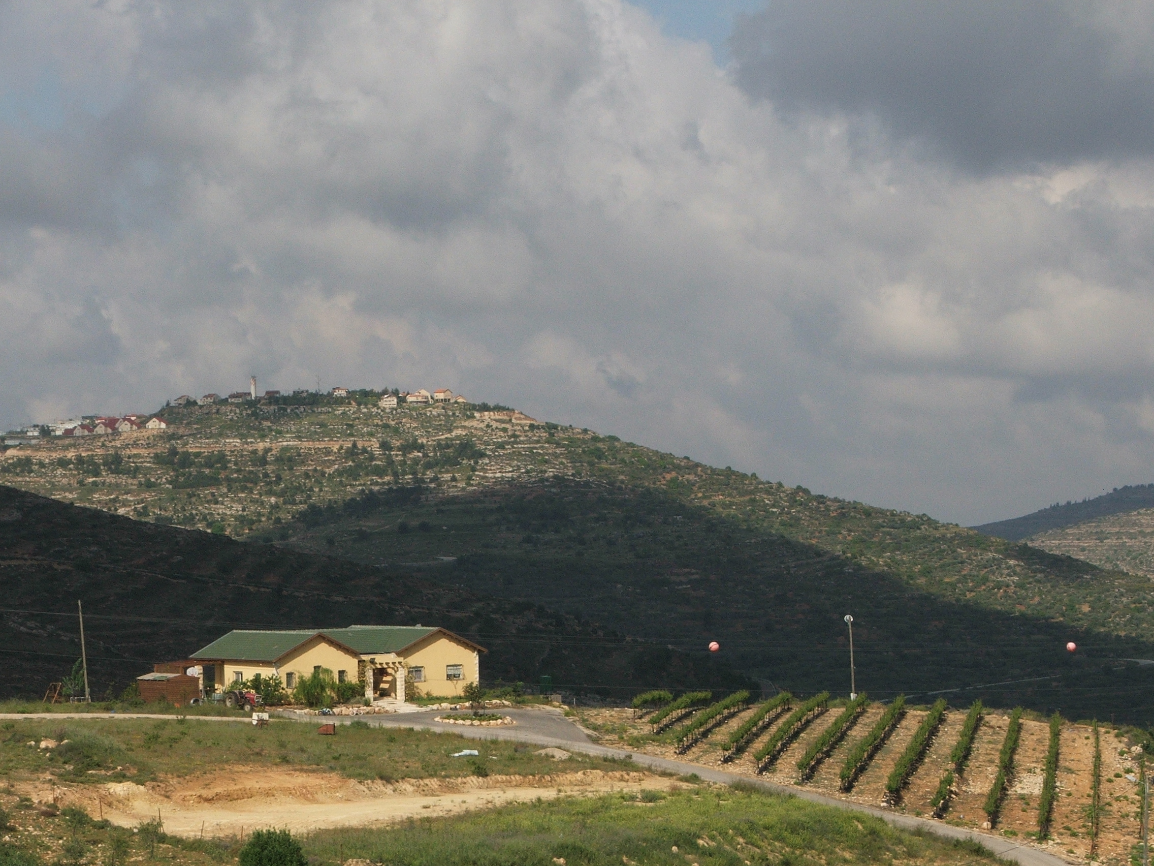 Wineyard___Givat_Harel